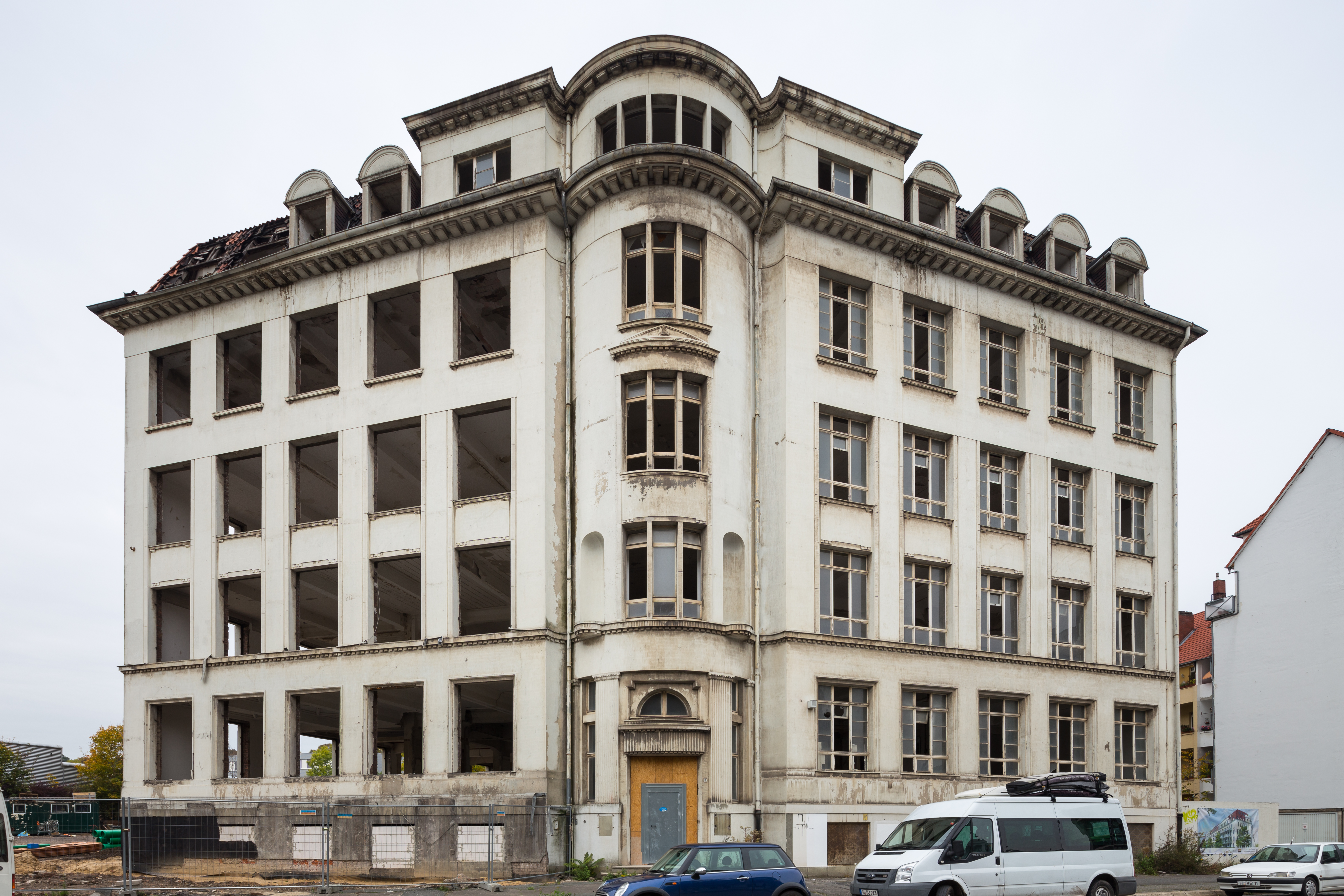 Former Beamtenwohnhaus building of former Hanomag company located at Hanomagstrasse no. 8 (site of the main entrance) in Linden-Sued quarter of Hannover, Germany. The image shows the state in October 2015, during the ongoing renovation of the building.